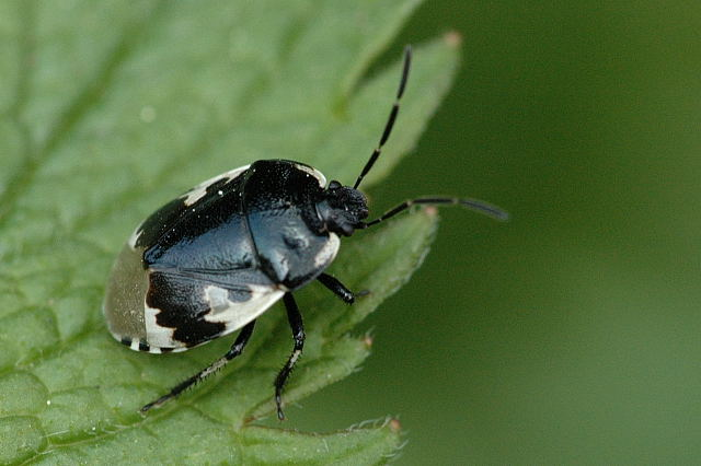 Picture taken in Commanster, Belgian High Ardennes . Species: Tritomegas bicolor